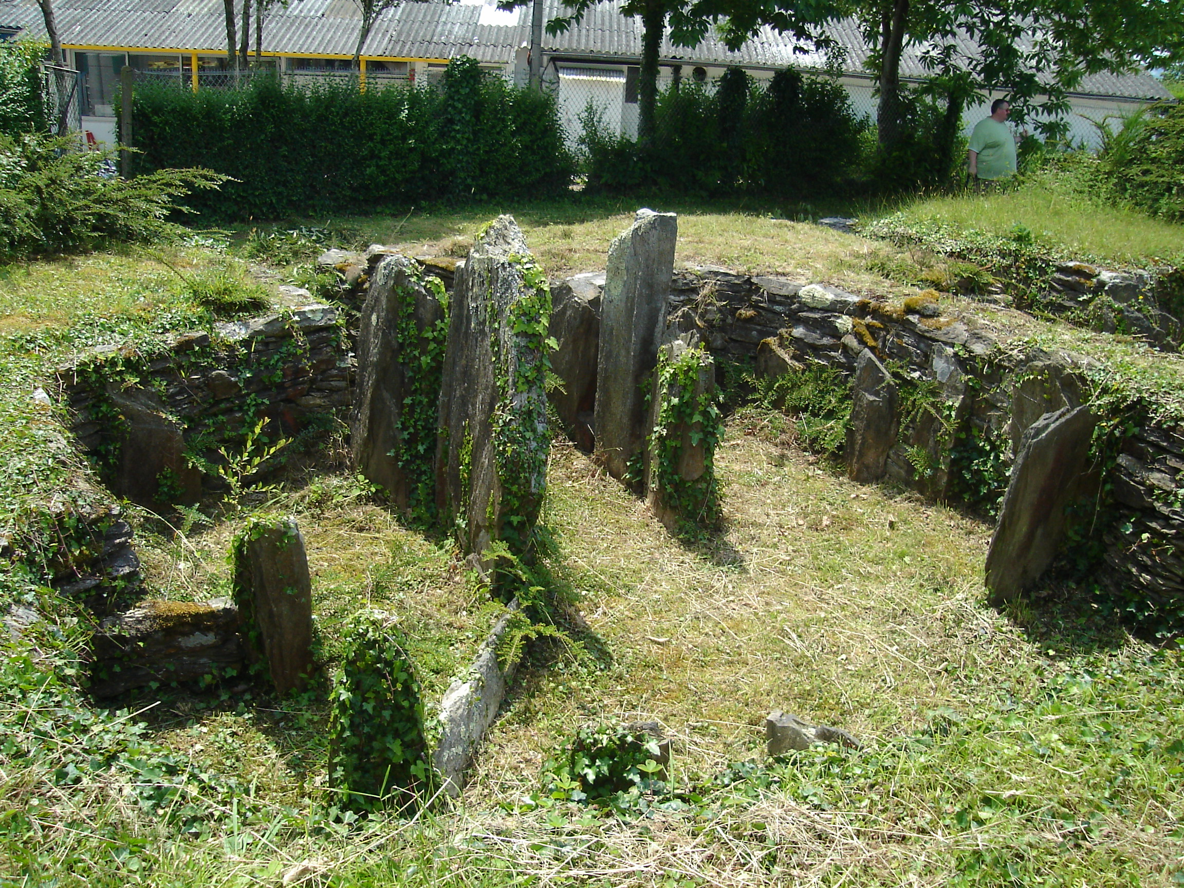 Remnants of a cairn located at camping site "du Saint-Laurent", Kerleven, Foret-Fouesnant, Finistere, Brittany, France